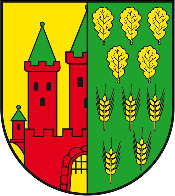 Coat of Arms of VG Möckern